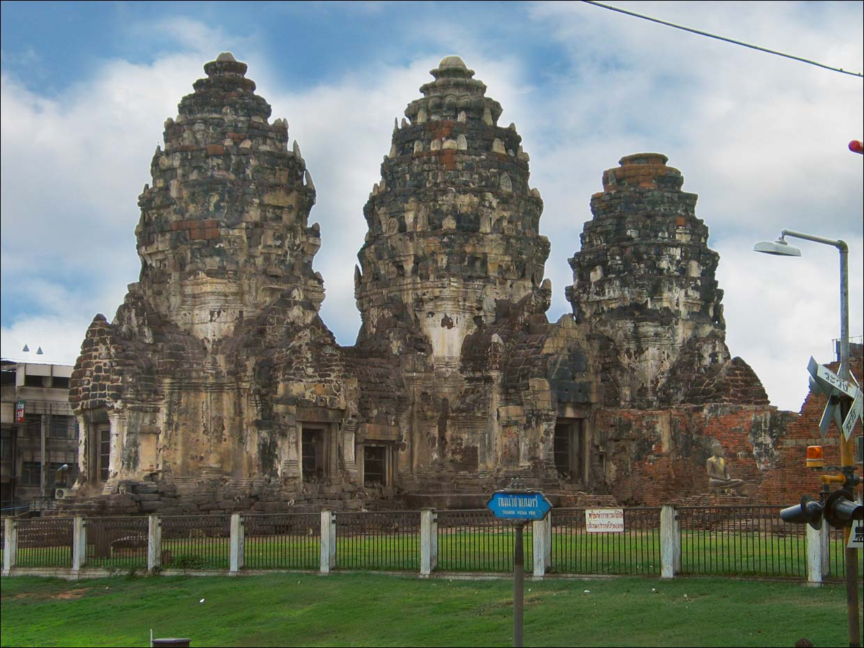 Prang Sam Yod, Lopburi